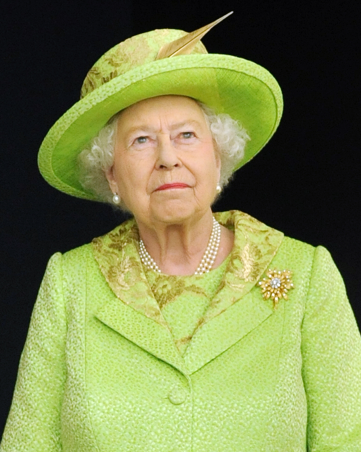 Elizabeth II